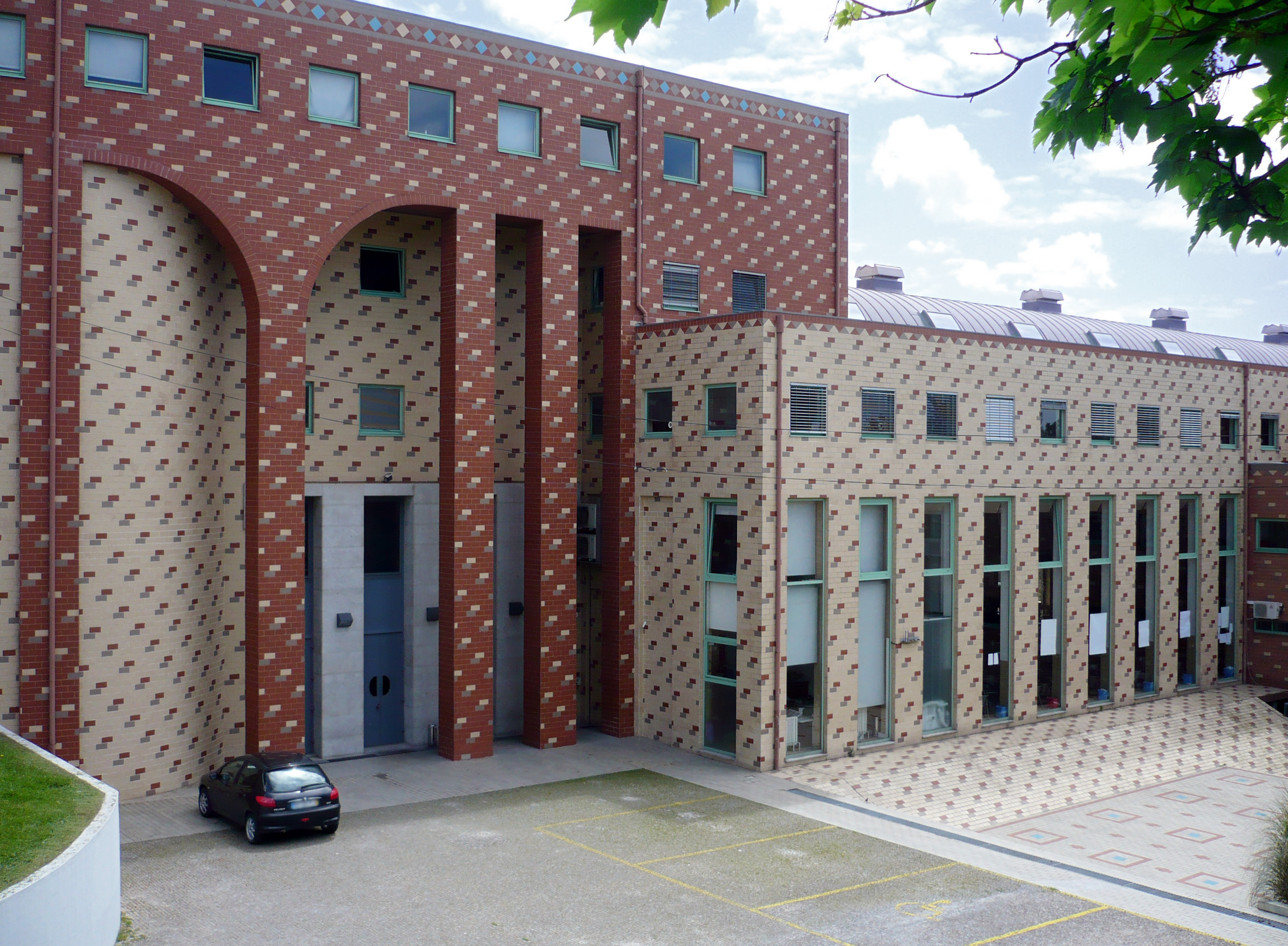 Part of the 'Faculdade de Letras' building of the University of Porto, Portugal (May 2008).